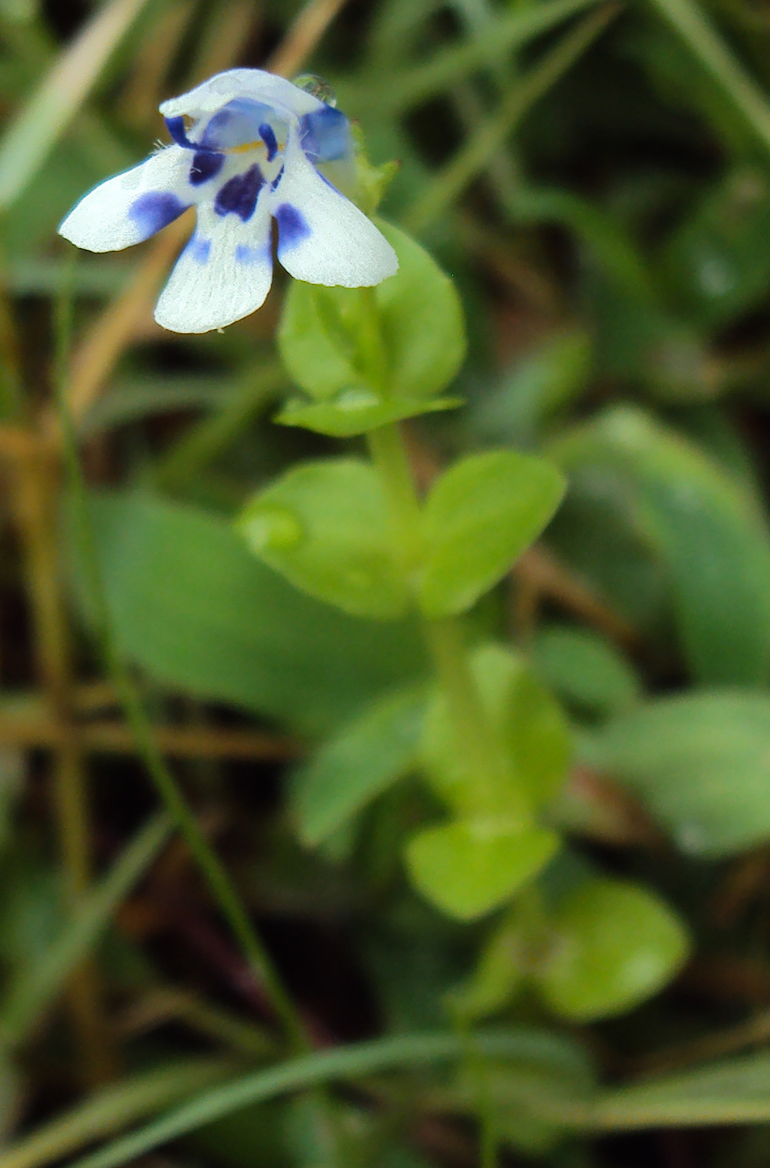 Lindernia rotundifolia